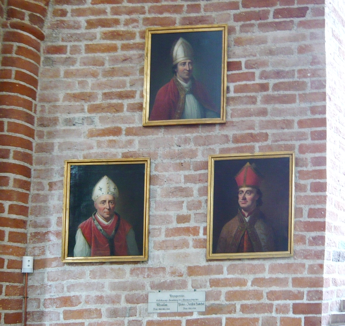 Bishop's portraits hanging in the ambulatory. On the left is a portrait of Absalon (1128-1201, Bishop of Roskilde 1158-1191), and on the right is a portrait of Peder Jensen Lodehat (d. 1416, Bishop of Roskilde 1395-1416). At the top is a portraint of the monk Ansgar, who helped spread Christianity in Denmark around 848.